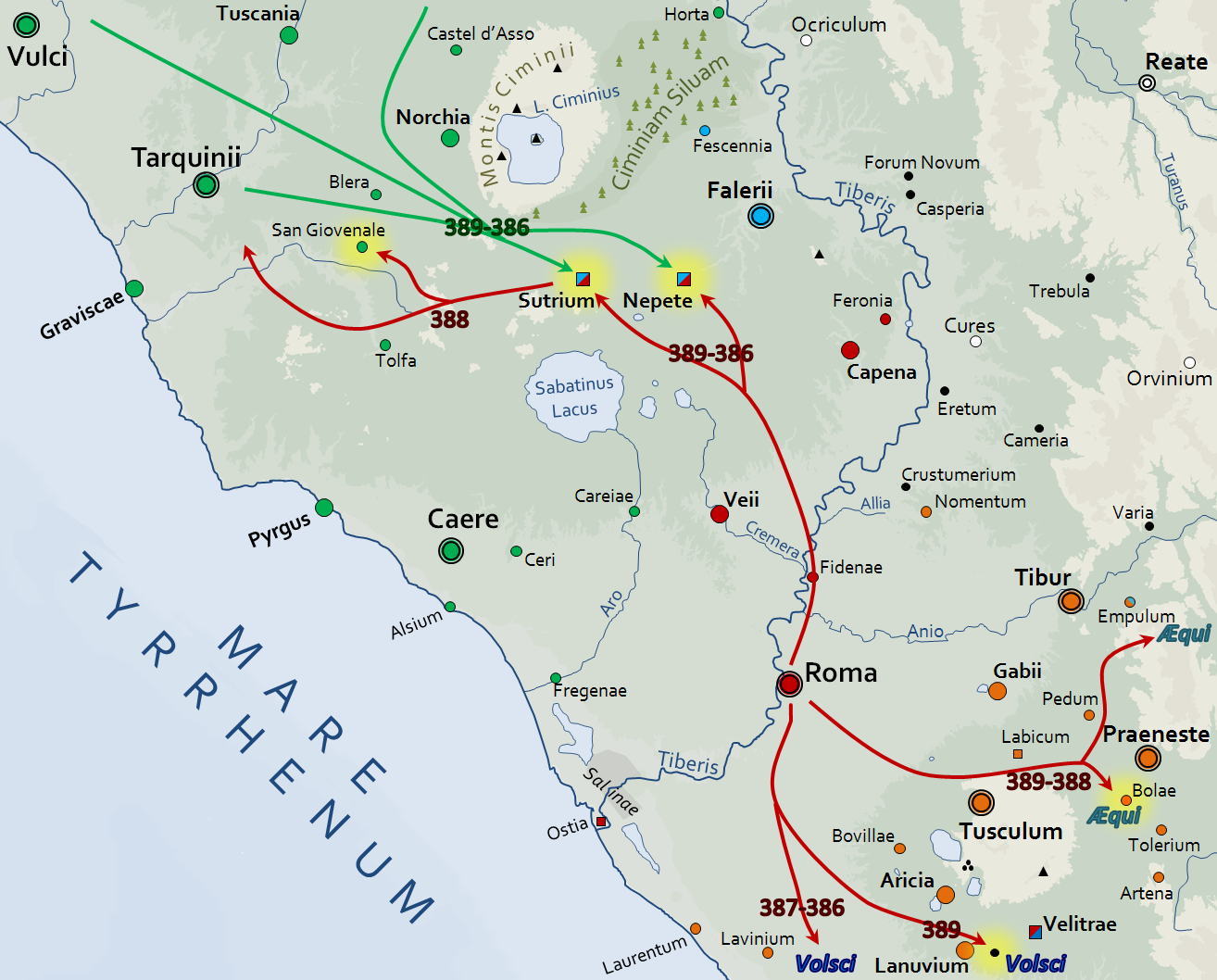 See File:Carte GuerresRomanoEtrusques 389avJC.png for the broad map.